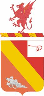 Obtained from US Army Institute of Heraldry at